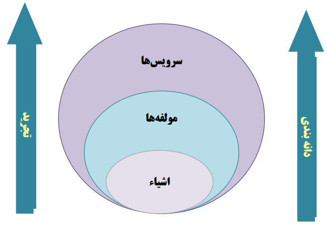 دانه بندی سرویس ها